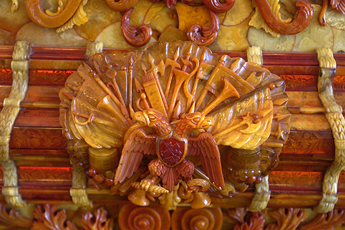 Pushkin (Russia), Amber room of the Catherine Palace